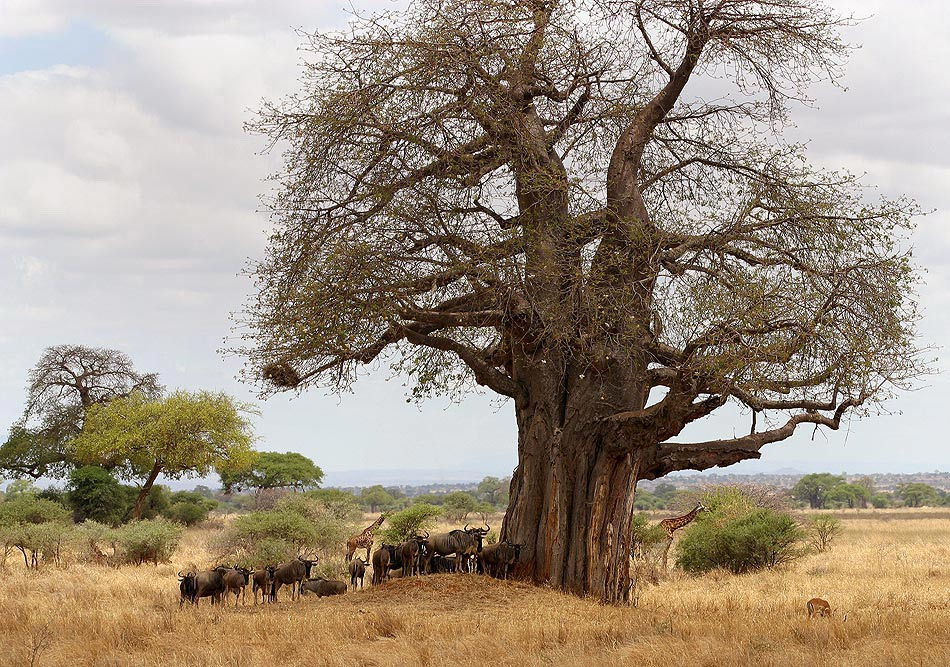 Monkey bread tree, Tarangire National Park in Tanzania.